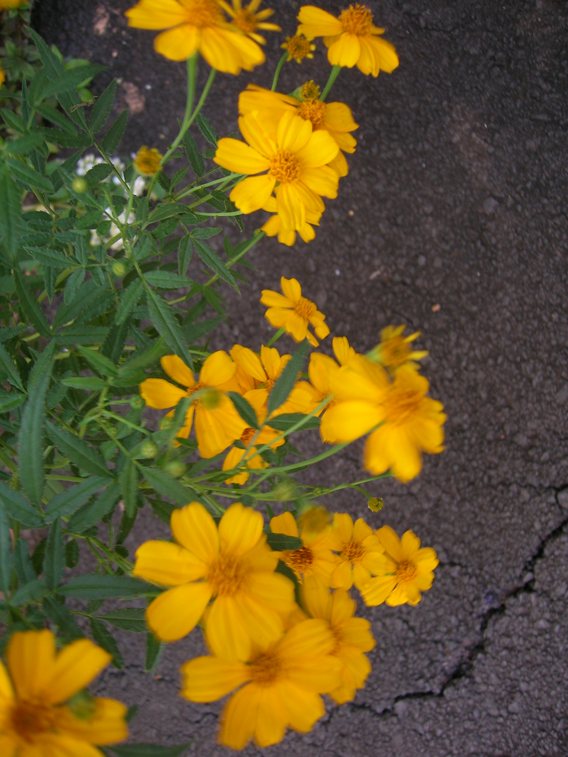 Note: this is not Tagetes lucida appears to be T. palmeri (flowers and leaves). T. lucida has undivided leaves. Location: Maui, Enchanting Floral Gardens of Kula